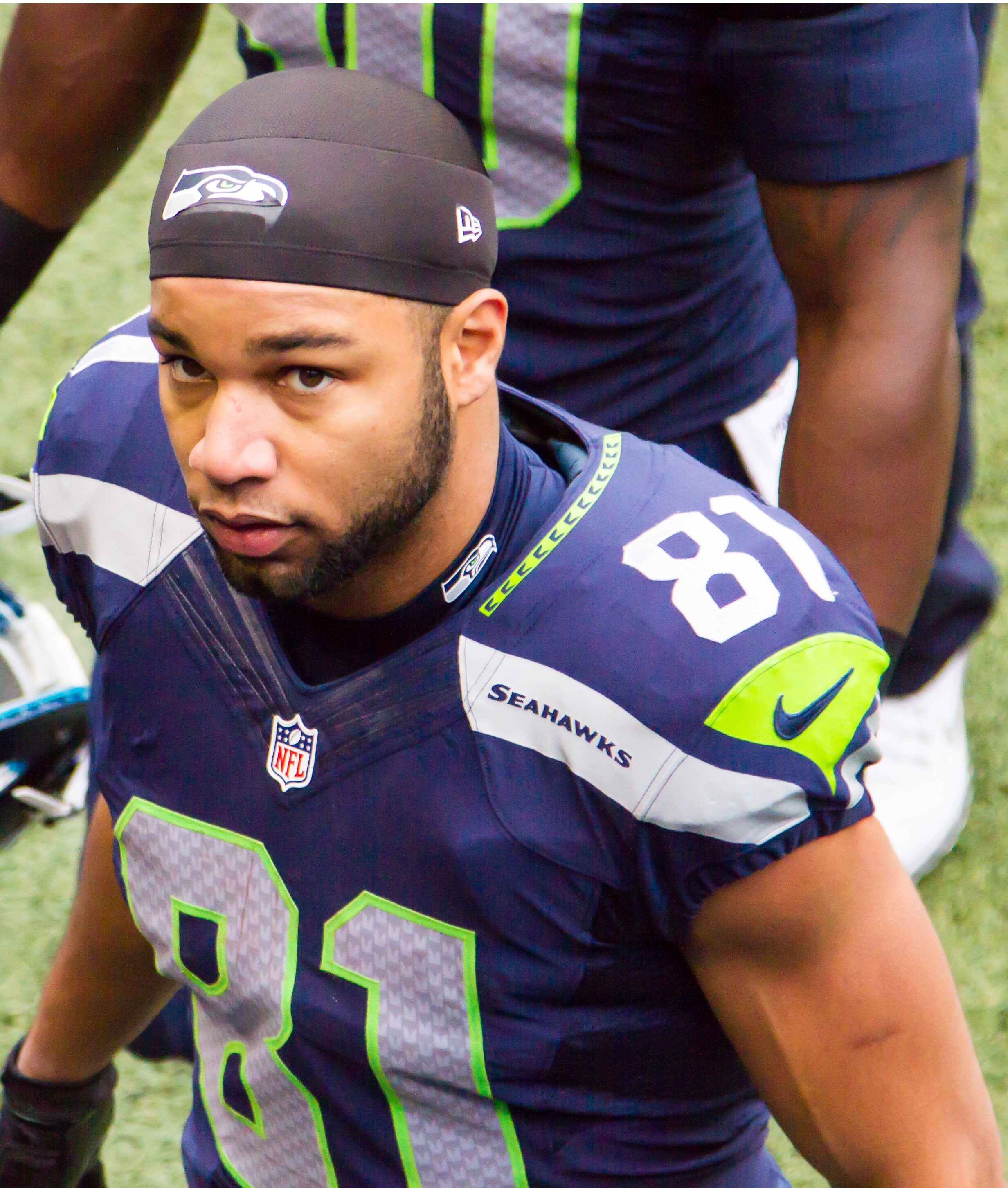 Golden Tate, Seahawks vs Rams 12.29.13